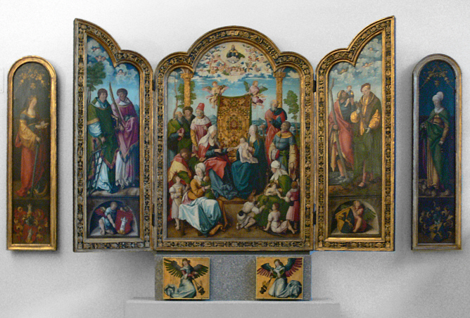 Wolf Traut: Artelshofen Altar of the Holy Kinship; Nuremberg 1514; originally in a chapel of St Lawrence's Church in Nuremberg; from the 17th century located in the church of Artelshofen (that was when the donators' portraits on the altarpiece were altered); now in the Bavarian National Museum, Munich.) Bayerisches Nationalmuseum München, Inv. Nr. R 722–724